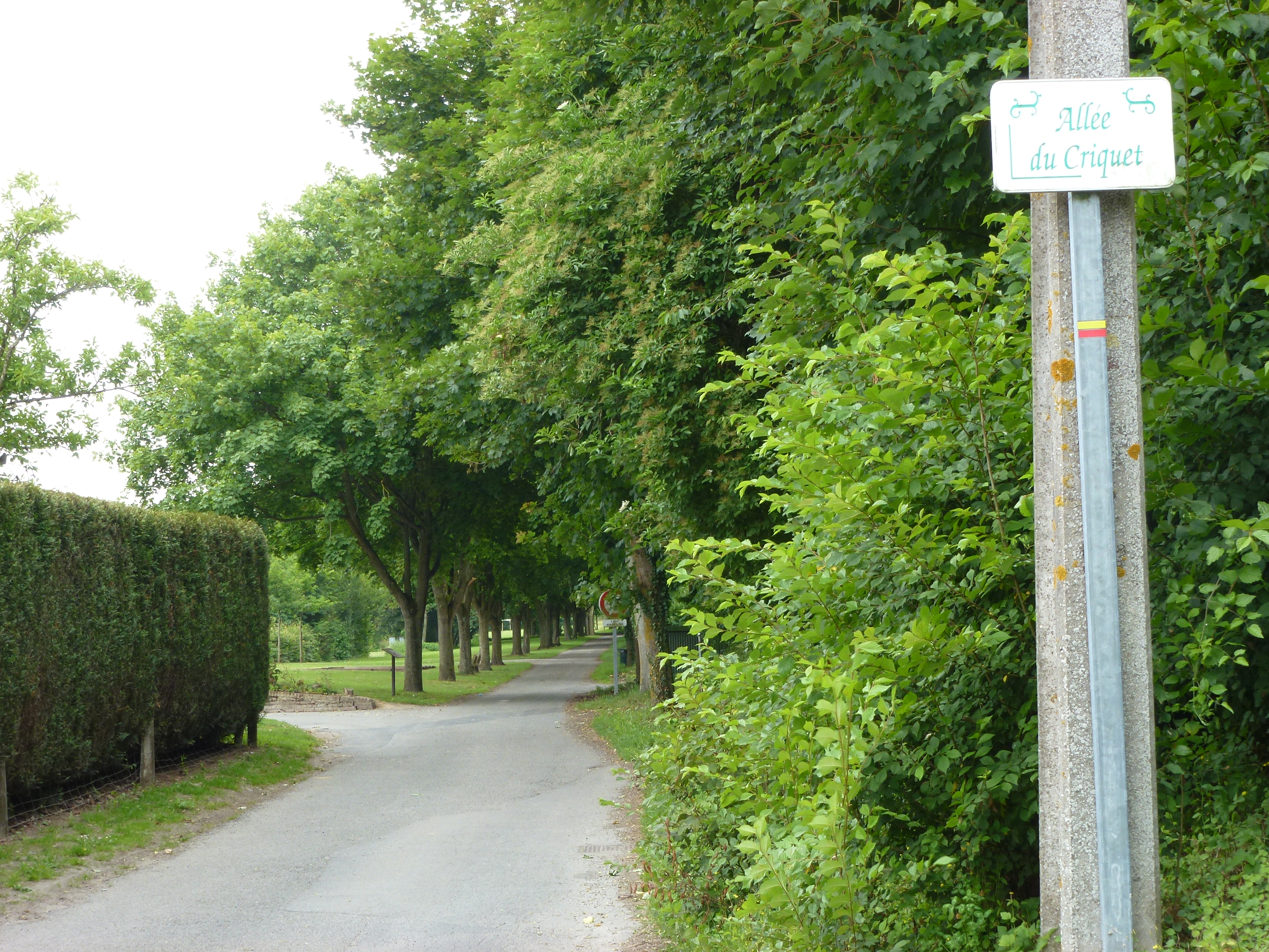 Liettres (Pas-de-Calais) ancien chemin de fer et terrain historique du Criquet